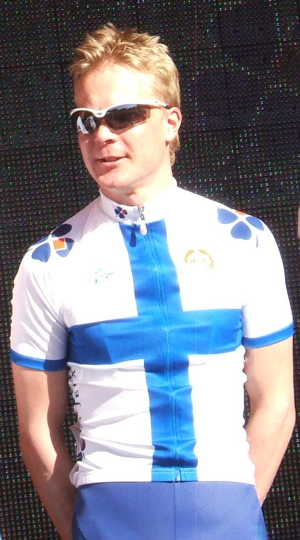 Cyclist Jussi Veikkanen at the 2009 Tour Down Under team presentation